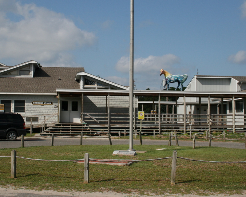 Ocracoke School (Ocracoke Island, Outer Banks, North Carolina, United States)